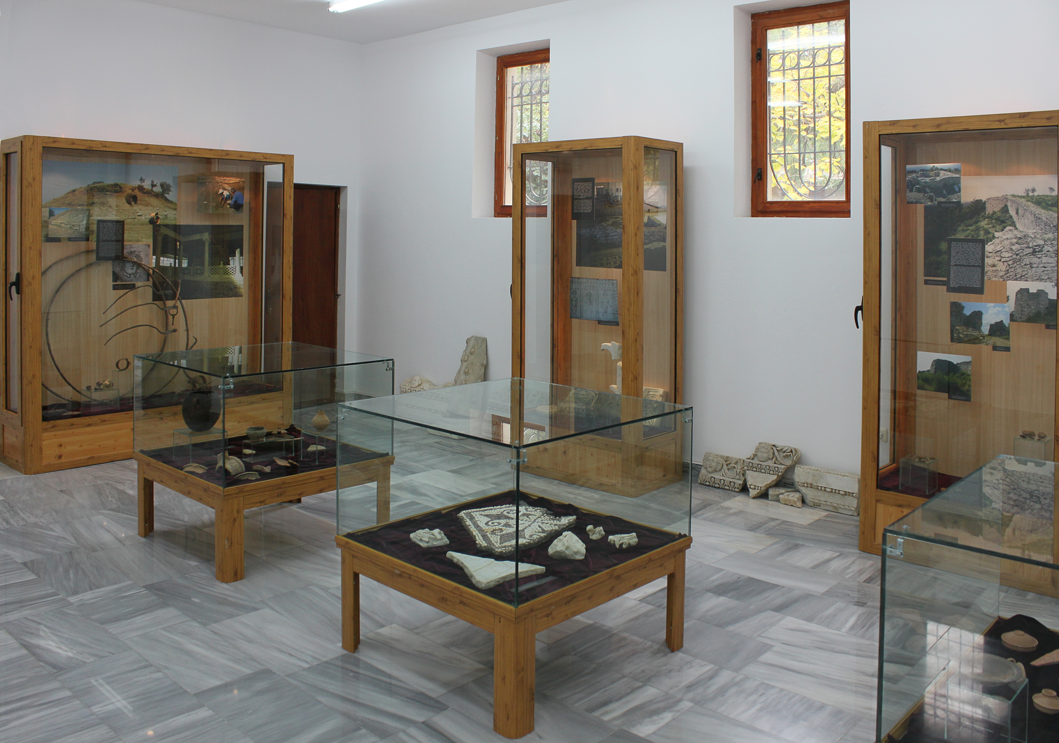 Historic Museum Ivailovgrad, Bulgaria